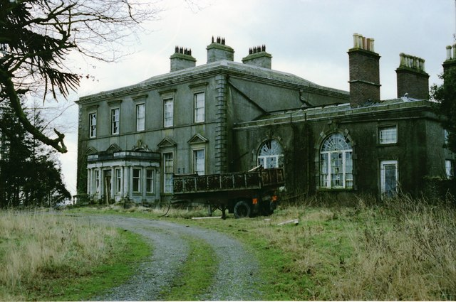 Stephenstown House, Knockbridge, Co. Louth Two storeys over basement, built c. 1790 with Regency-period addition on right. Tuscan porch of about 1840 (info from Buildings of North Leinster). Now derelict.